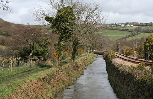 The Atlantic Coast Line (also known as the Newquay Branch Line) just north of St Blazey, flanked by the remains of the Par Canal. For more information see the Wikipedia article Atlantic Coast Line, Cornwall.